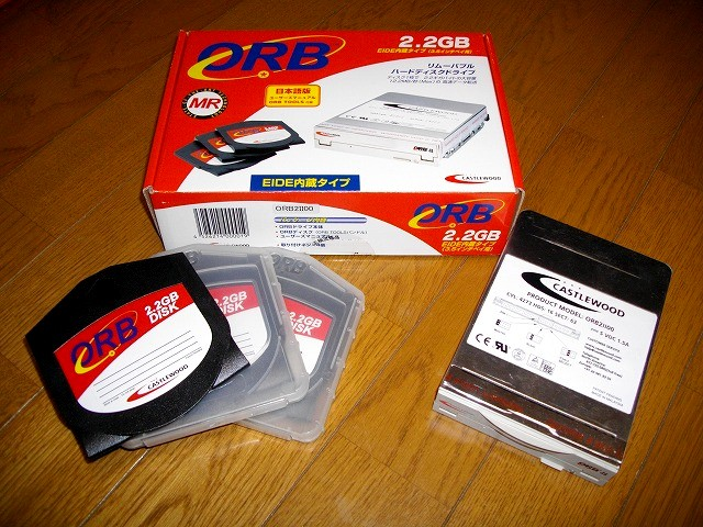 ORB Drive & Disk